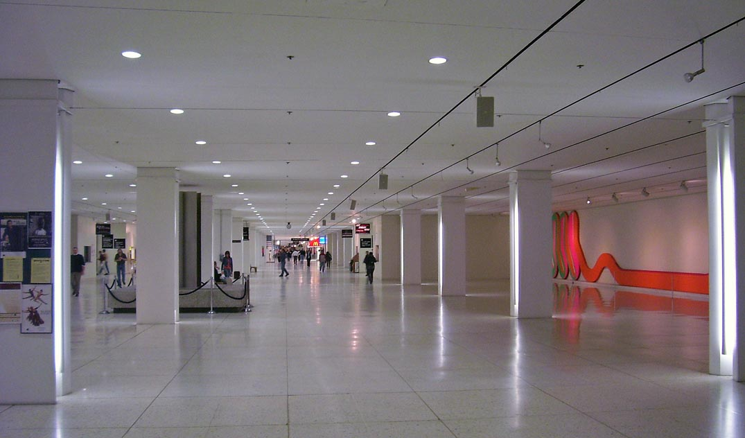 Photographed by Daniel Case 2007-04-06 near the State Museum end of the concourse, looking north.